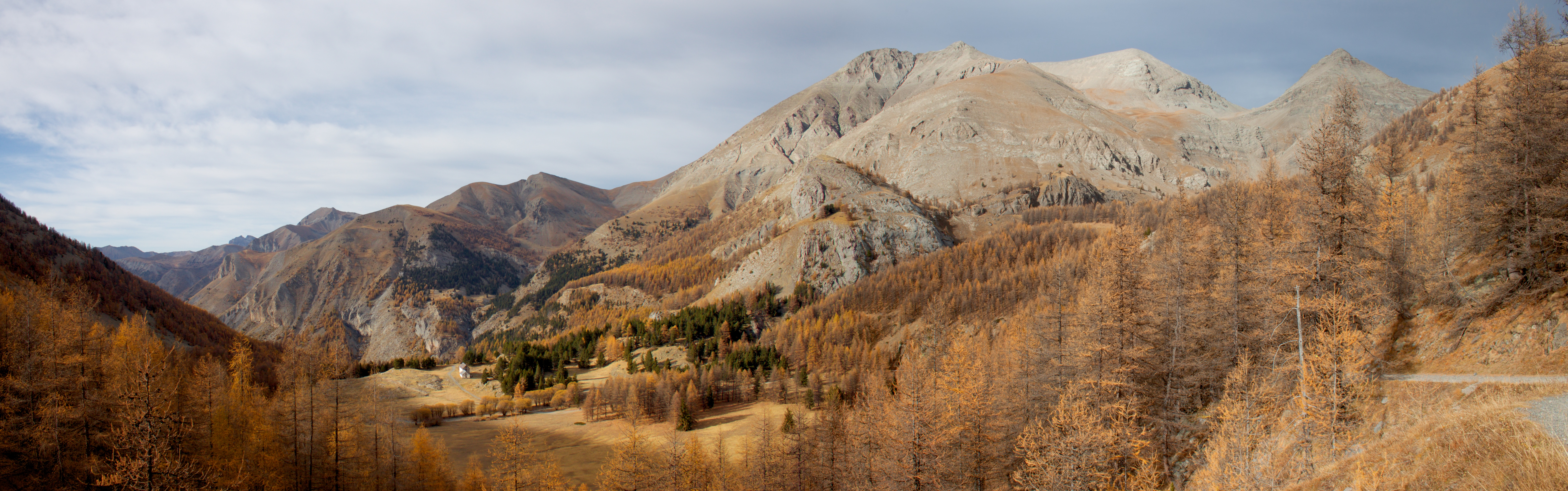 Panorama at the Allos Lake trail in the Mercantour National Park (Alpes-de-Haute-Provence, France) including the peaks Grande Séolane, Mont Pelat and Trou d'Aigle from left to right. October 2017.